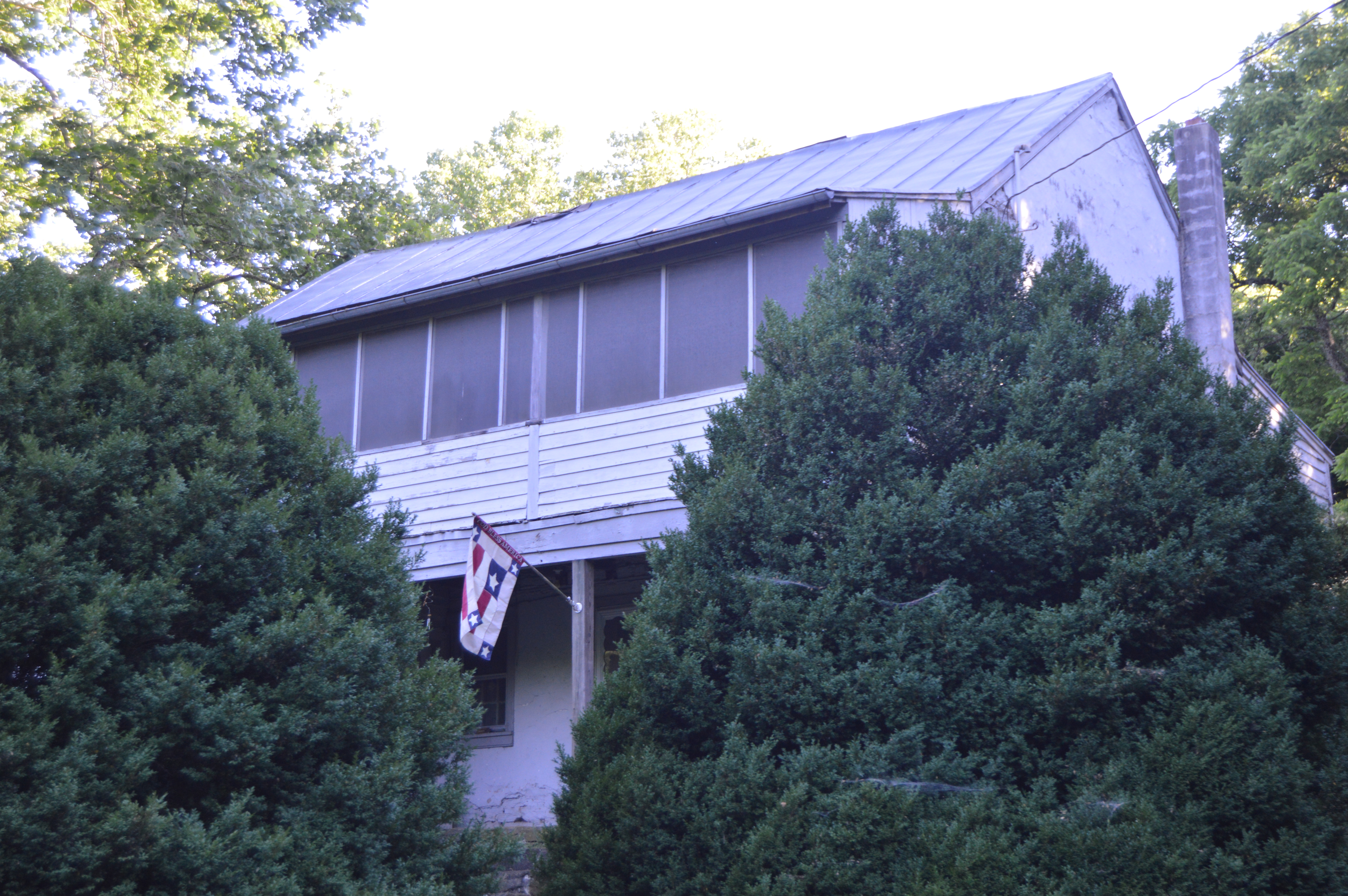 Front of the mill at Buffalo Forge (now a house), located on Bunker Hill Mill Road north of Glasgow in Rockbridge County, Virginia, United States. It has recently been restored; a 2003 report listed it as being in ruins. Together with the rest of the forge complex historic district, it is listed on the National Register of Historic Places.